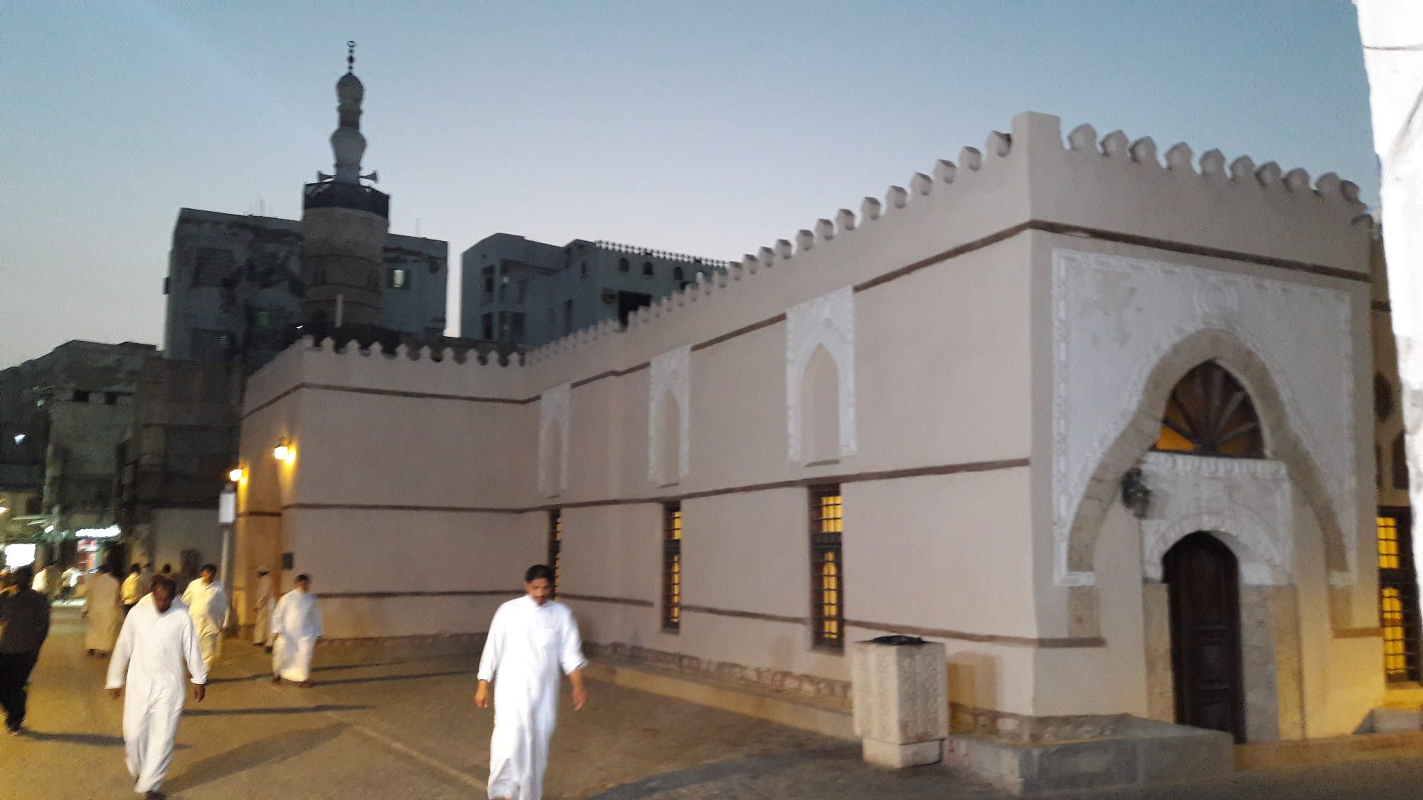 Masjid Al-Shafei, Old Jeddah